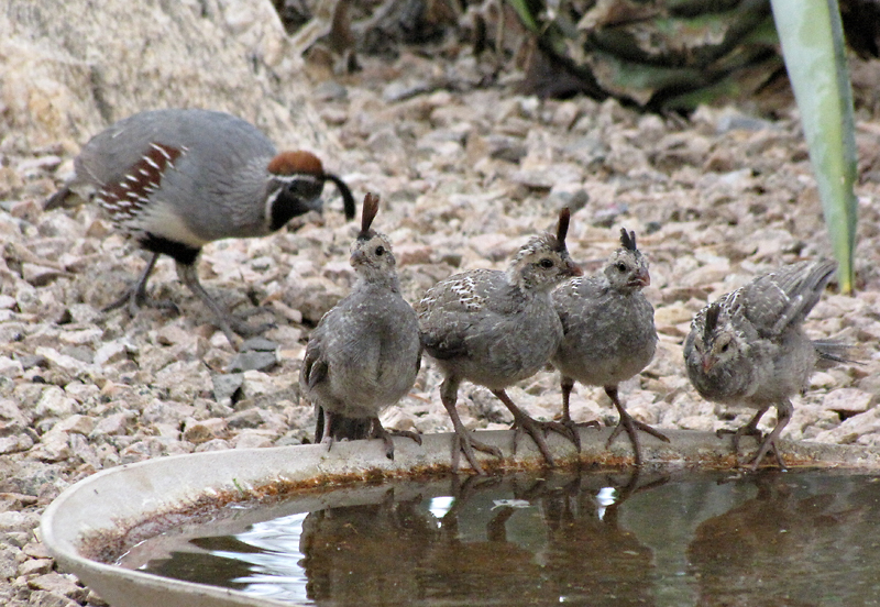 Four juvenile Gambel's Quails with an adult male in the background in Tucson, Arizona, USA.